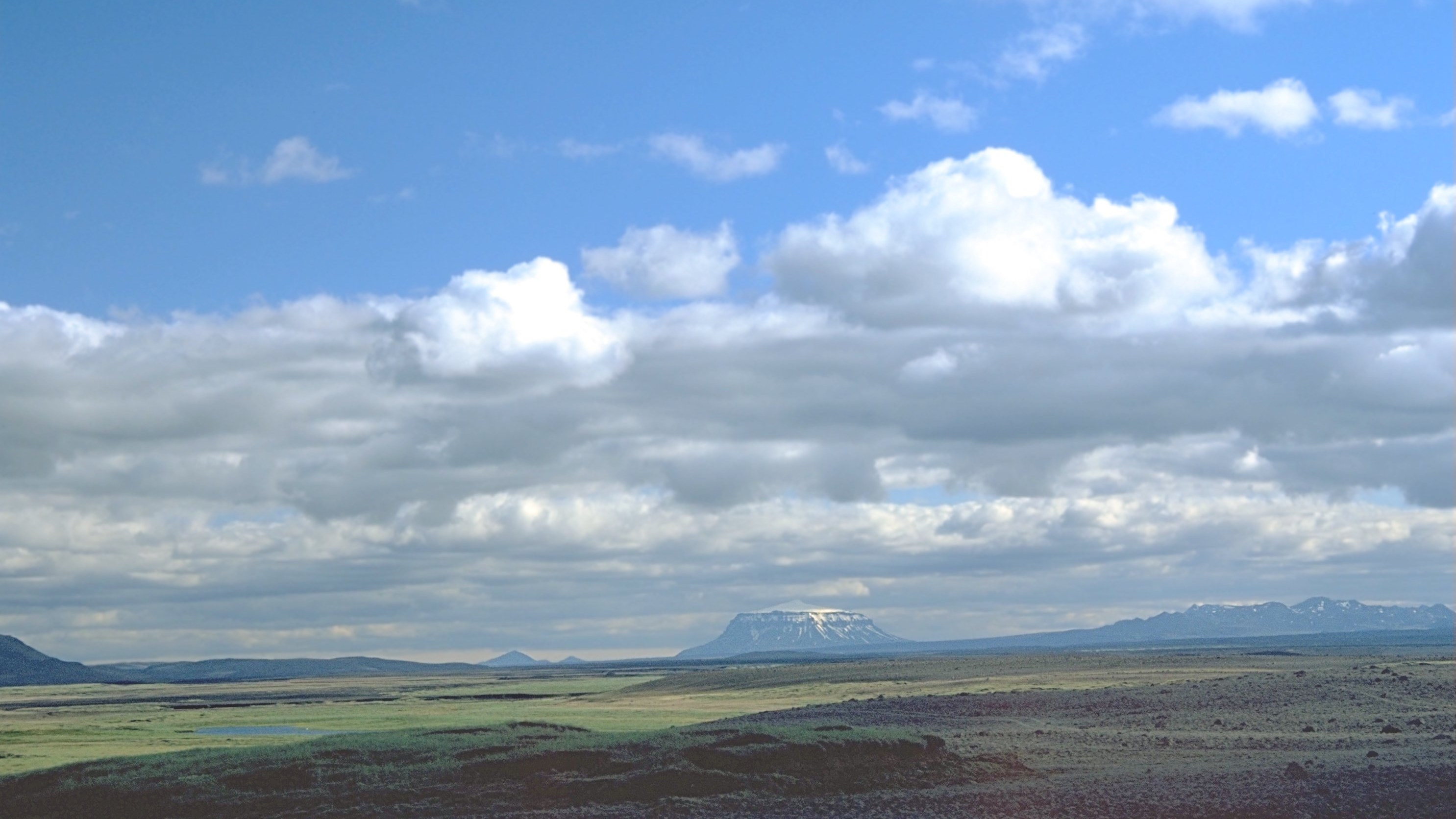 Herðubreið coming from Dettifoss, Iceland Photo was taken using the following technique: Film: Fuji Velvia Lens: 4/70-210 Filter: Body: Minolta Dynax 7 Support: Manfrotto 190B Image with Information in English Bild mit Informationen auf Deutsch